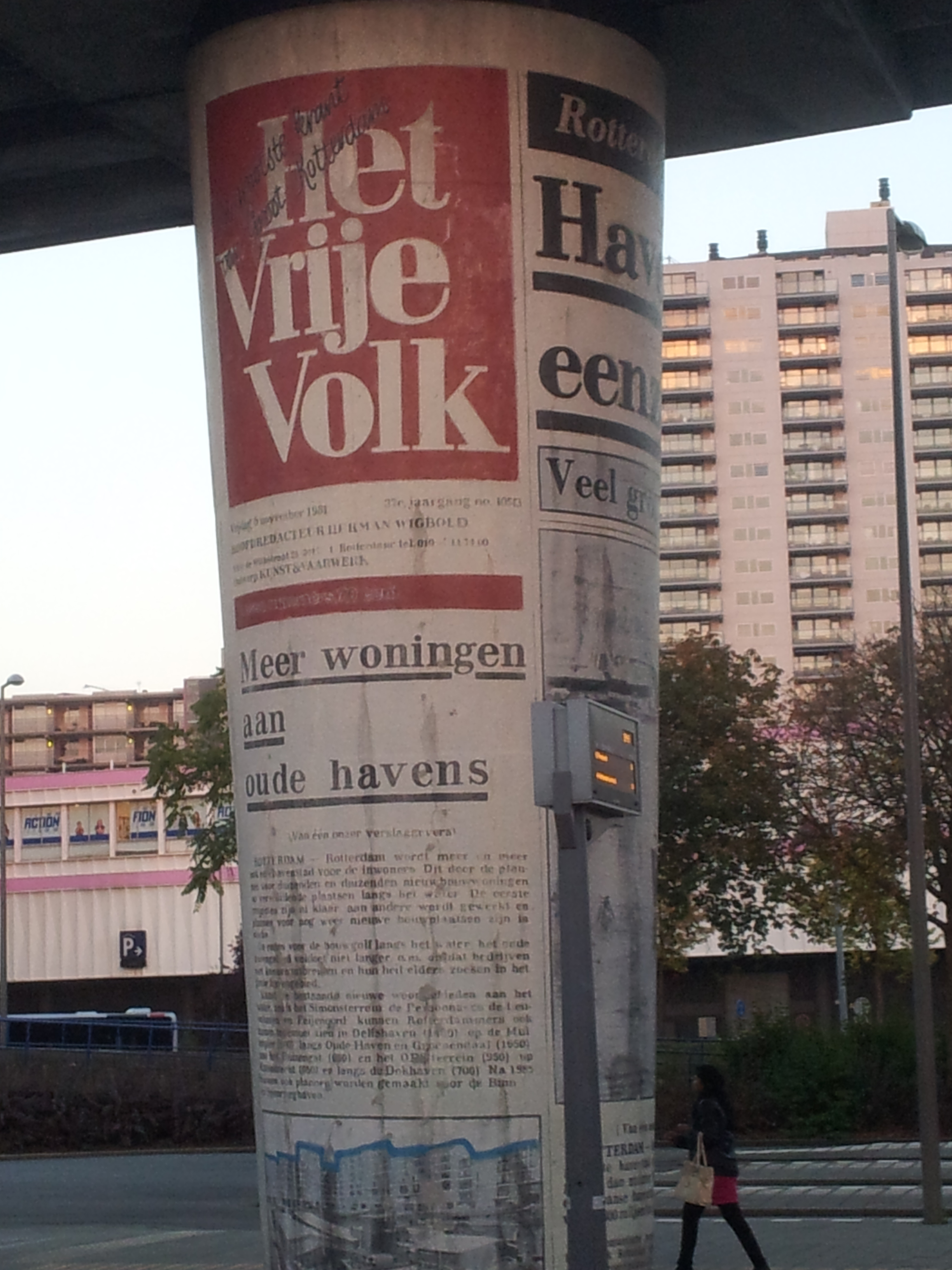 Front page of Het Vrije Volk of 6 November 1981 on a metro pillar near Metrostation Zuidplein in Rotterdam.